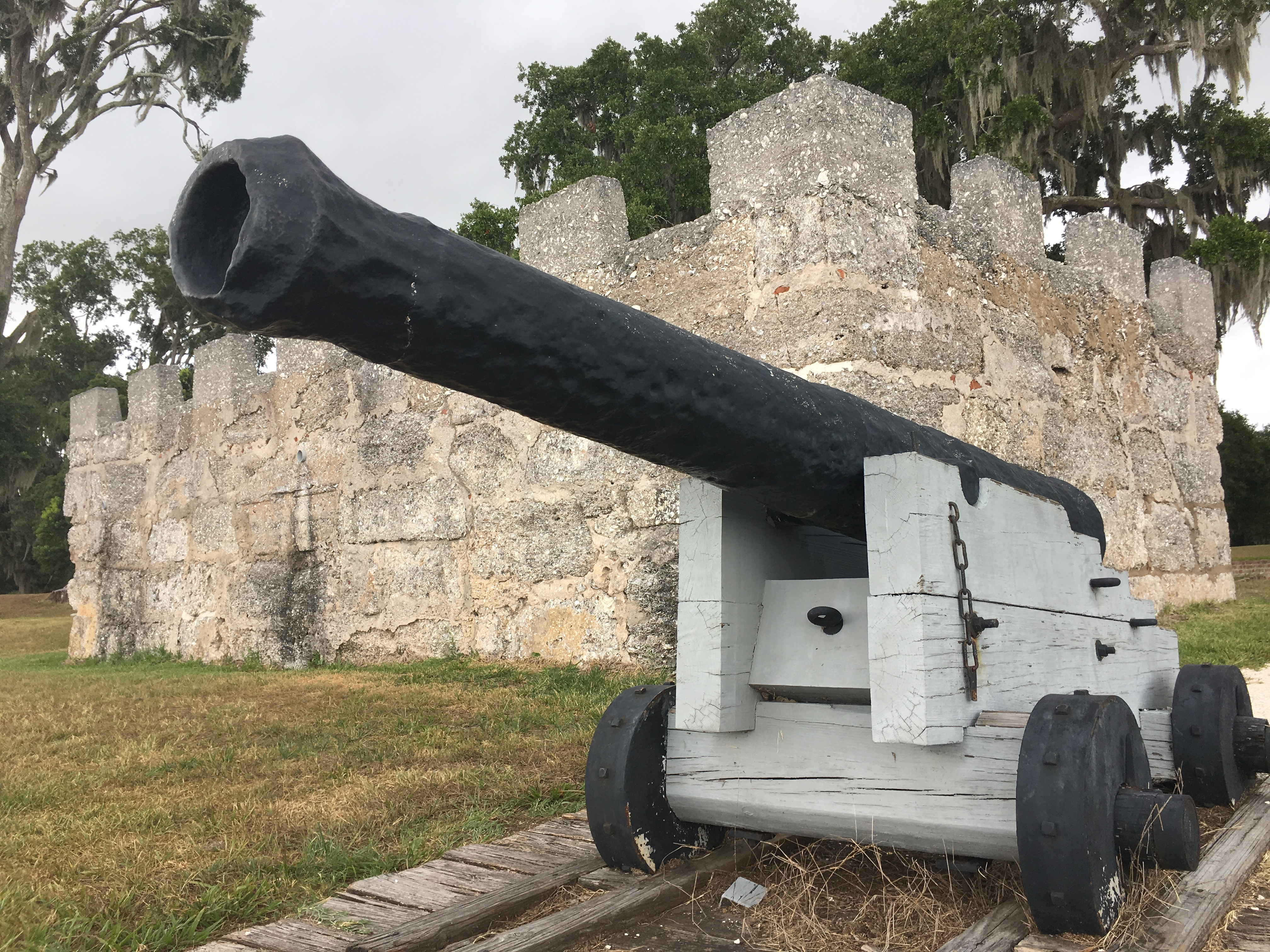 Cannon outside magazine at Frederica National Monument